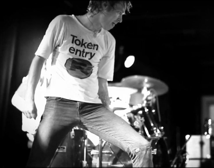 Dennis Lyxzén performing with AC4 at The Zoo in Brisbane Australia April 2011